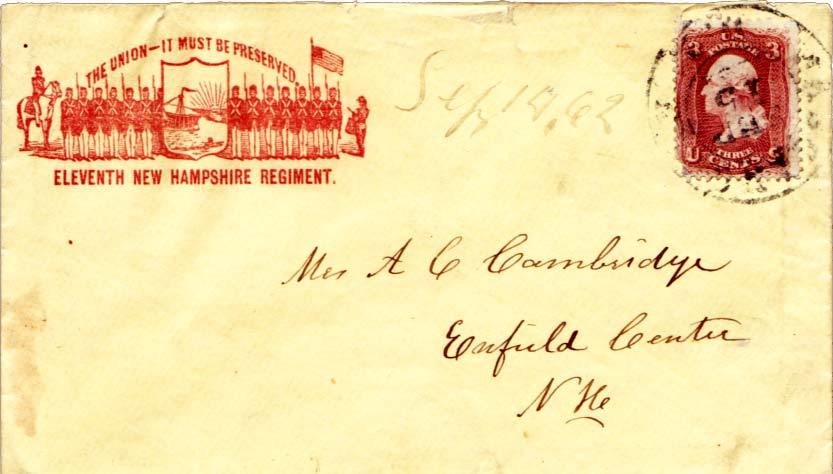 Patriotic Envelope with 1862 US postage stamp.